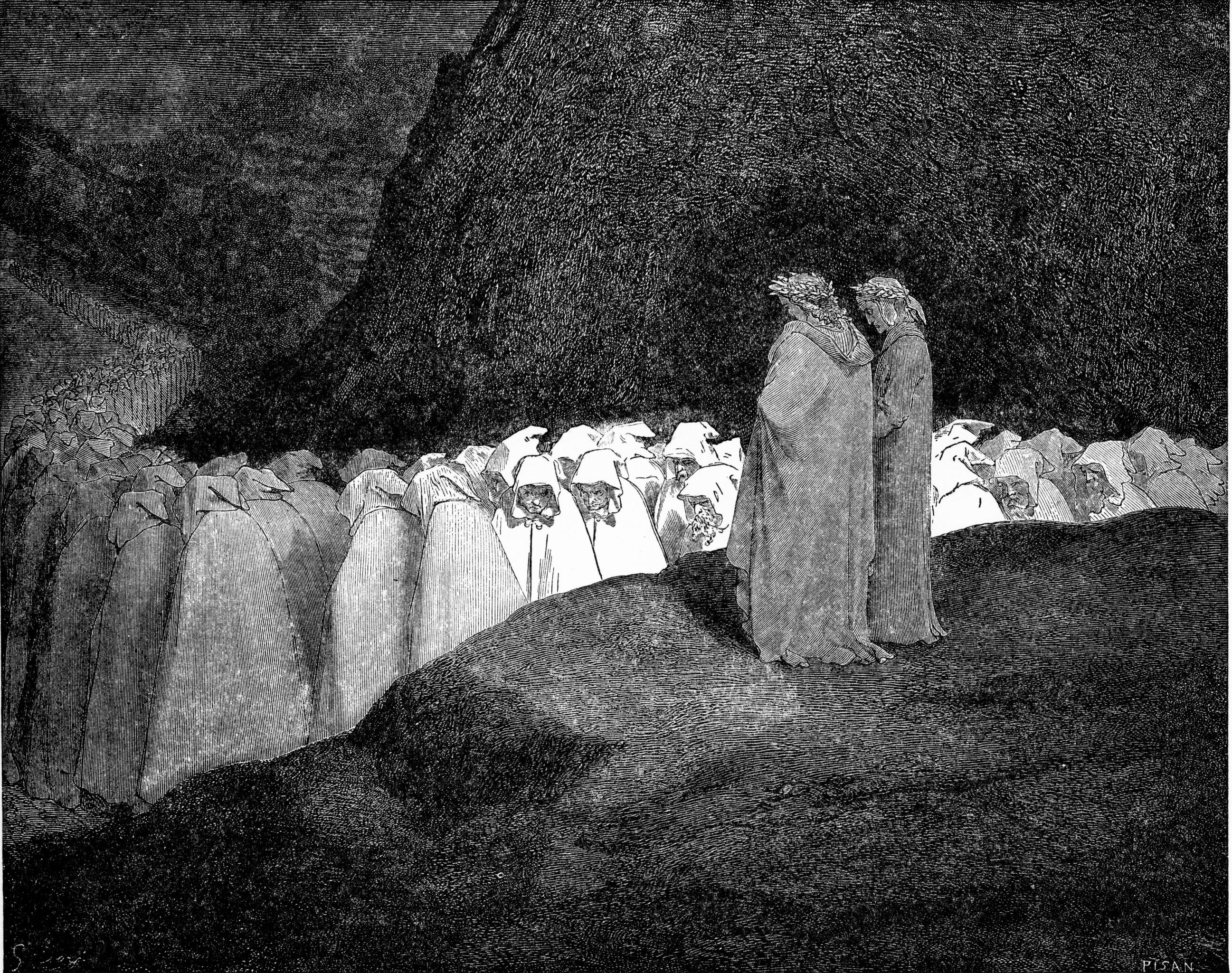 High resolution scan of engraving by Gustave Doré illustrating Canto XXIII of Divine Comedy, Inferno, by Dante Alighieri. Caption: The Hypocrites address Dante